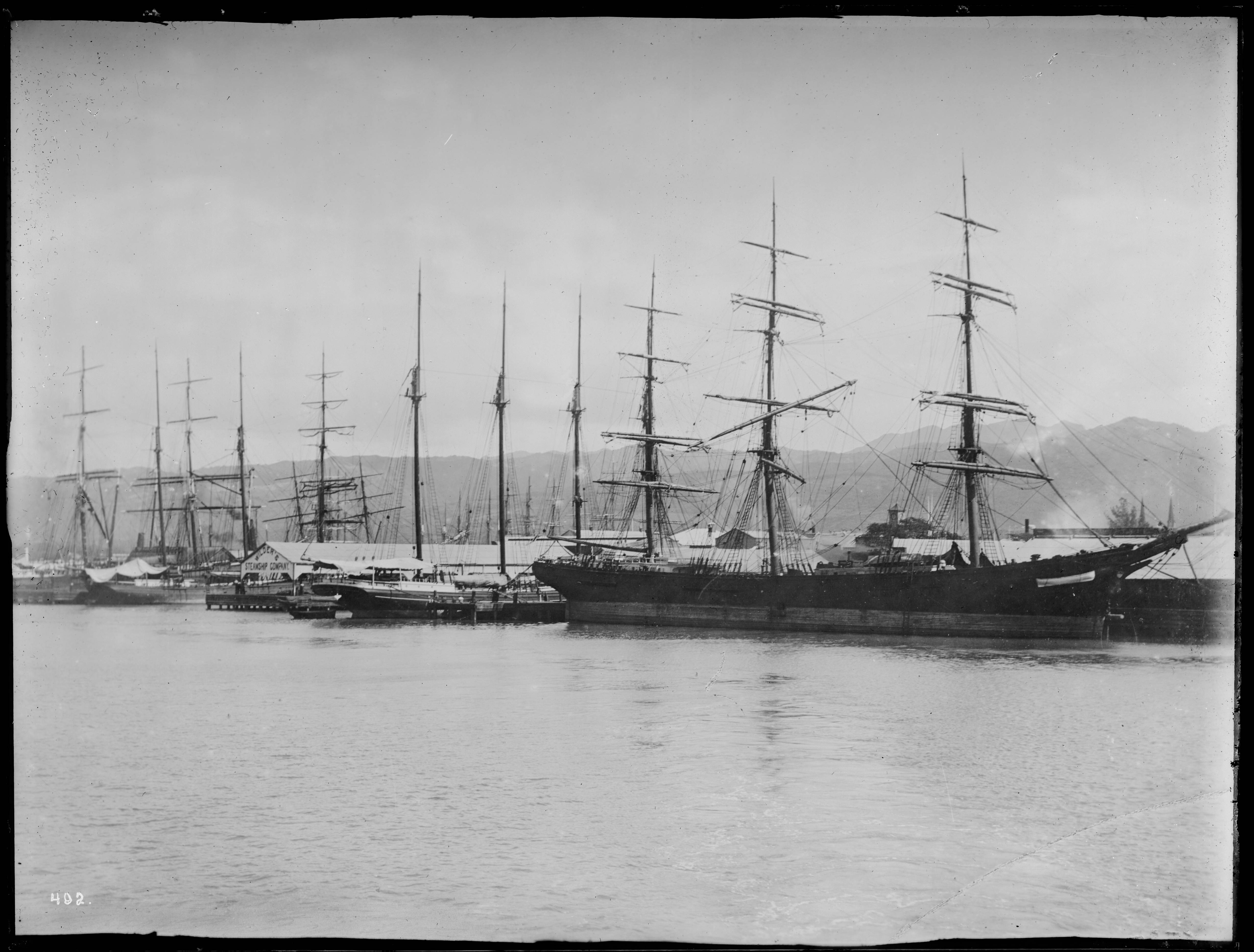 Sailing vessels at wharf in Honolulu harbor, ca.1892-1907 Photograph of sailing vessels tied up at a wharf in the Harbor of Honolulu, ca.1892-1907. The name Wilder's Steamship Company appears on the front of the shed in the left center. Large ships surround the long, lightly-colored shed of the company with a variety of tall masts which are reflected in the shimmering water. Faint mountains stand in the background. Call number: CHS-402 Filename: CHS-402 Coverage date: circa 1892/1907 Part of collection: California Historical Society Collection, 1860-1960 Format: glass plate negatives Type: images Part of subcollection: Title Insurance and Trust, and C.C. Pierce Photography Collection, 1860-1960 Repository name: USC Libraries Special Collections Accession number: 402 Microfiche number: 1-121-4 Archival file: chs_Volume28/CHS-402.tiff Geographic subject (city or populated place): Honolulu Repository address: Doheny Memorial Library, Los Angeles, CA 90089-0189 Geographic subject (country): USA Format (aacr2): 4 photographs : glass photonegative, photoprints, b&w ; 17 x 22 cm., 16 x 21 cm., Rights: Digitally reproduced by the USC Digital Library; From the California Historical Society Collection at the University of Southern California Project: USC Repository Contributing entity: California Historical Society Date created: circa 1892/1907 Publisher (of the digital version): University of Southern California. Libraries Format (aat): photographic prints; photographs Geographic subject (state): Hawaii Legacy record ID: chs-m1488; USC-1-1-1-1533; USC-1-1-1-14026 Access conditions: Send requests to address or e-mail given. Phone (213) 821-2366; fax (213) 740-2343. Subject (file heading): Transportation -- Water -- Sail; Hawaii Subject (lcsh): Sailing ships; Shipping